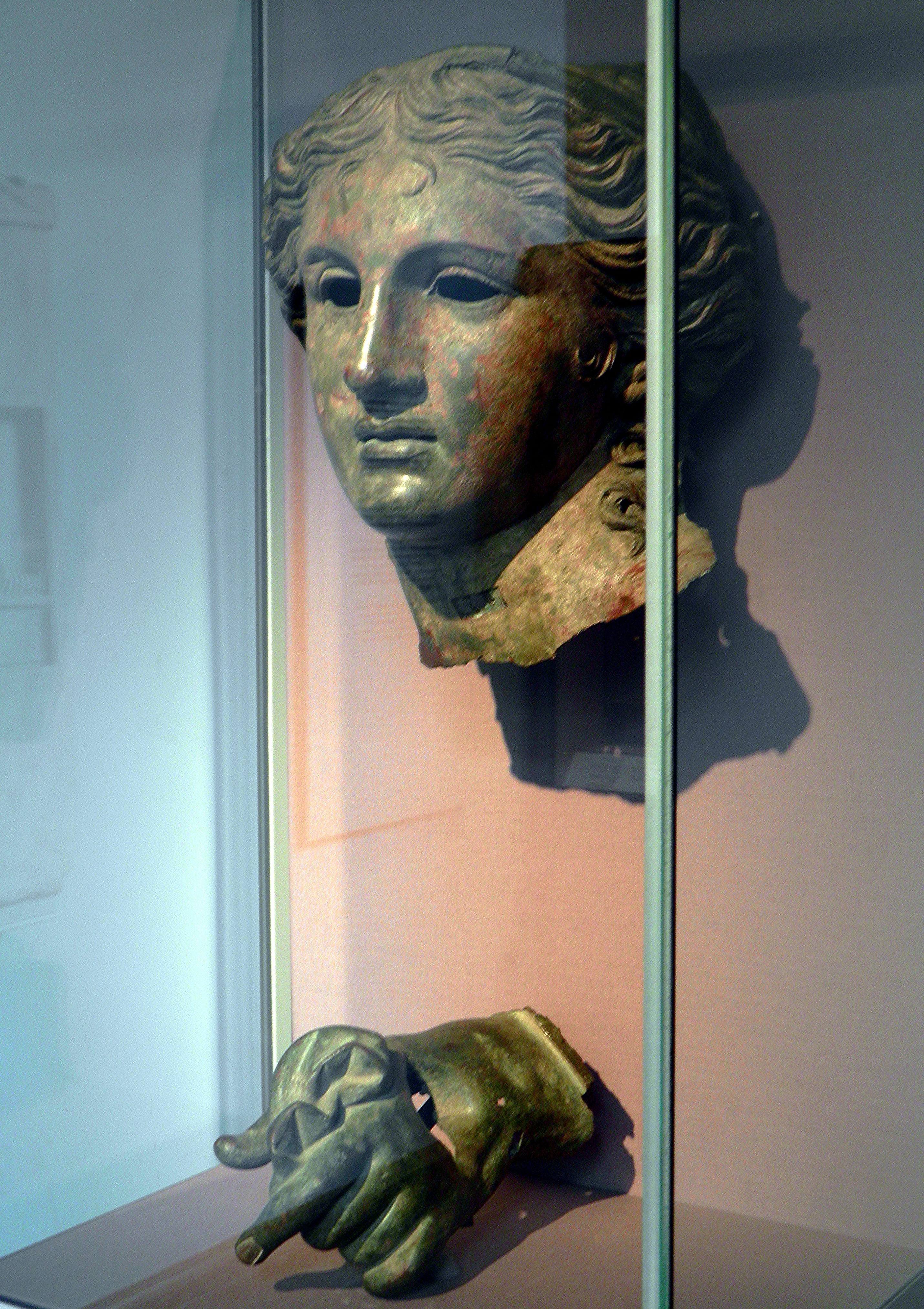 Hellenistic Greek, 1st century BC Found at the ancient city of Satala, modern Sadak, north-eastern Turkey In about 1872 a man digging his field on the site of ancient Satala struck with his pick-axe against this head. A bronze hand also lay nearby. The head made its way via Constantinople (modern Istanbul) and Italy to the dealer Alessandro Castellani, who eventually sold it to The British Museum. The hand was presented to the Museum a few years later. Despite rumours that the whole statue had previously been found, the body has never come to light. Although there is pick-axe damage to the top of the head, the face is well preserved. The eyes were originally inlaid with either precious stones or a glass paste, and the lips perhaps coated with a copper veneer. The statue has been identified as a nude Aphrodite, her left hand pulling drapery from a support at her side, like the famous statue of Aphrodite at Knidos by the fourth-century sculptor Praxiteles. It has also been suggested that the statue represents the Iranian goddess Anahita, who was later assimilated with the Greek goddesses Aphrodite and Athena. The size of the head suggests that it came from a cult statue, though excavations made at Satala in 1874 by Sir Alfred Biliotti, the British vice-consul at Trebizond, failed to discover a temple there. The statue may date to the reign of Tigranes the Great, king of Armenia (97-56 BC), whose rule saw prosperity throughout the region. The thin-walled casting of the bronze head suggests a late Hellenistic date. H.B. Walters, Catalogue of bronzes, Greek, R (London, 1899) C.C. Mattusch, Classical bronzes (Cornell University Press, 1996) Head, in the British Museum online catalogue Hand, in the British Museum online catalogue